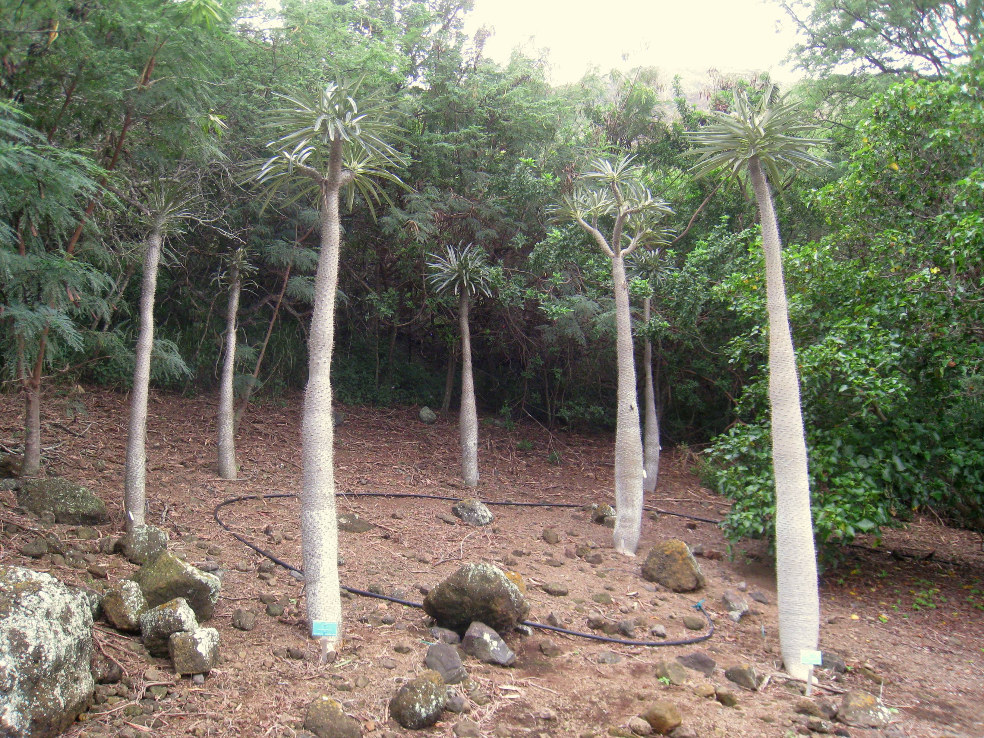 Pachypodium geayi in the Koko Crater Botanical Garden, Honolulu, Hawaii, USA.